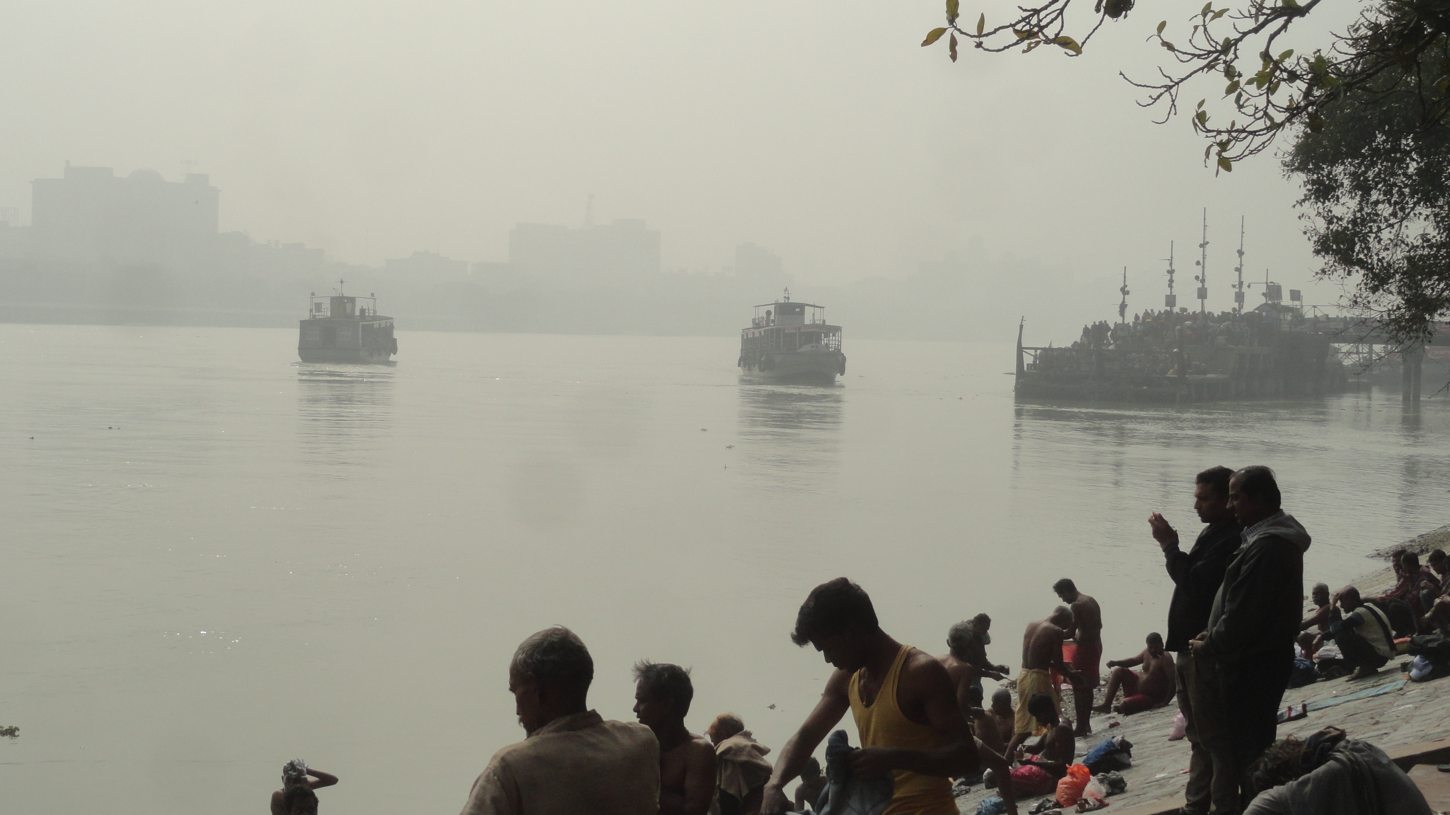 Sacred bath of Indian culture